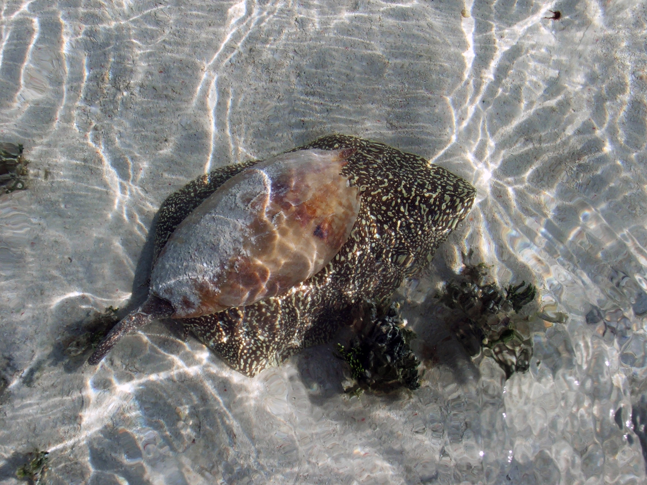 Although this file is entitled Melo amphora it is almost certainly shows a closely related species, Melo umbilicatus, moving across sand at low tide Size: Approximate shell length 25-30cm Location: Heron Island